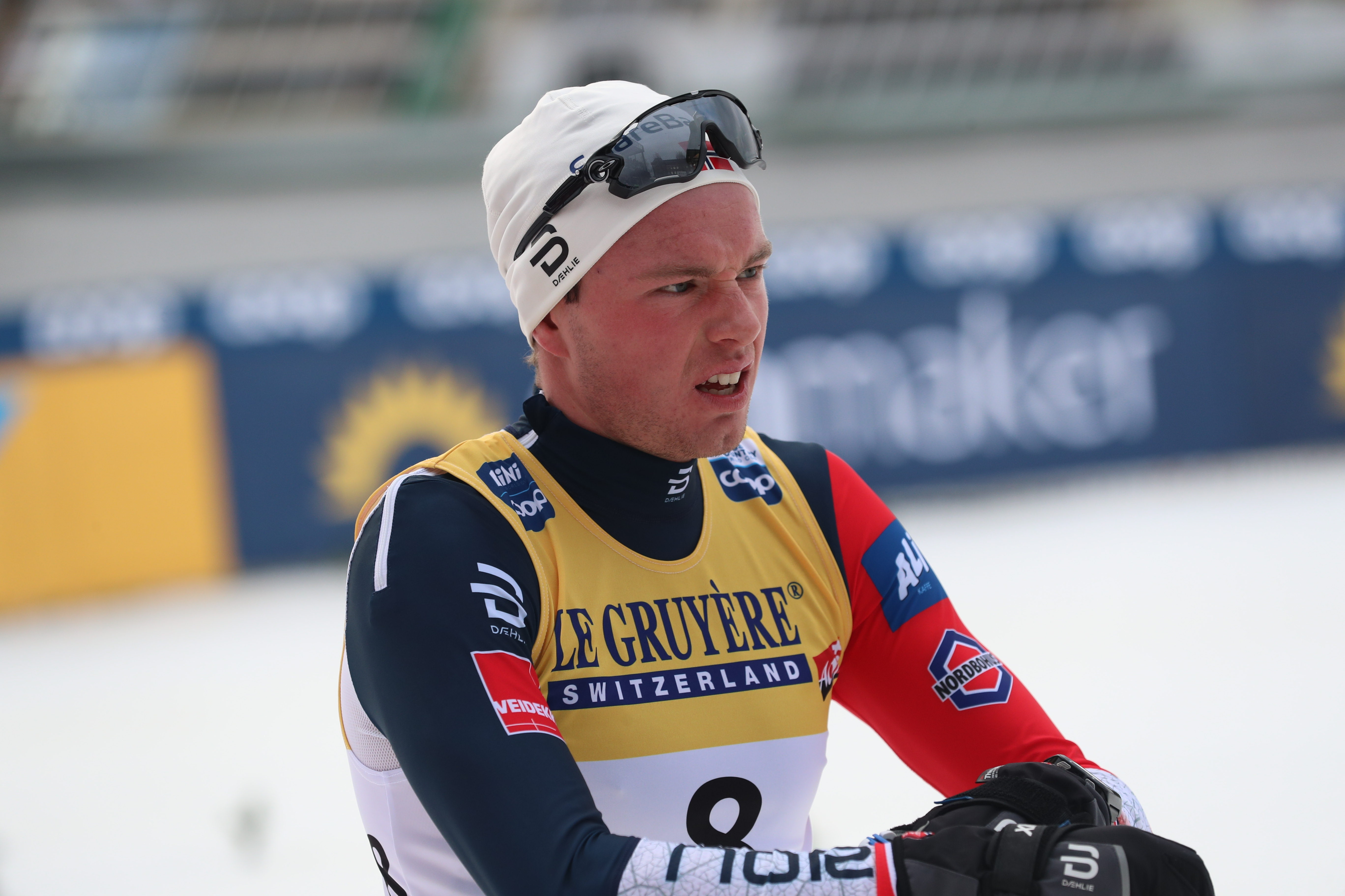 Men's Quarterfinal, Heat 3, at the FIS Cross-Country World Cup Dresden 2019 (1.6 km Free Sprint)